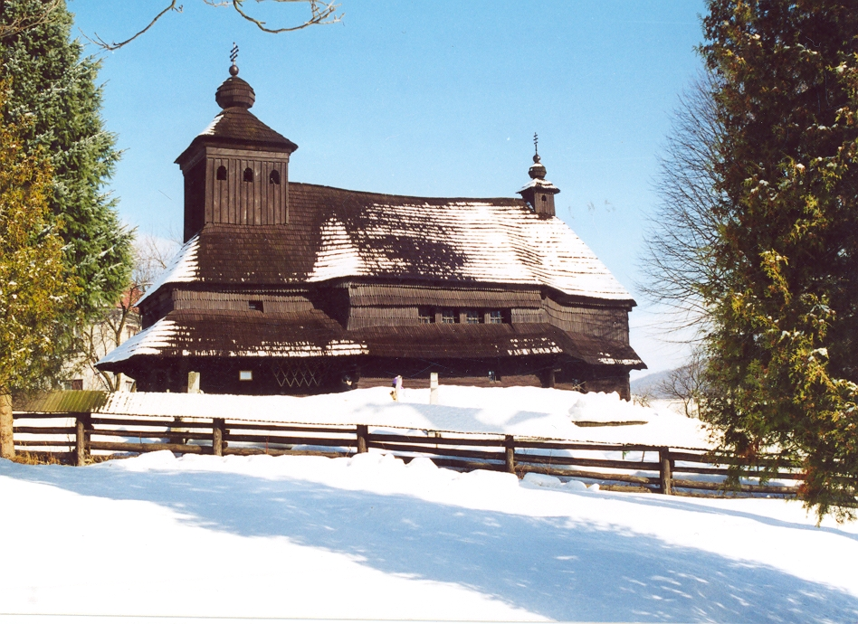 Wooden Church en Uličské Krivé